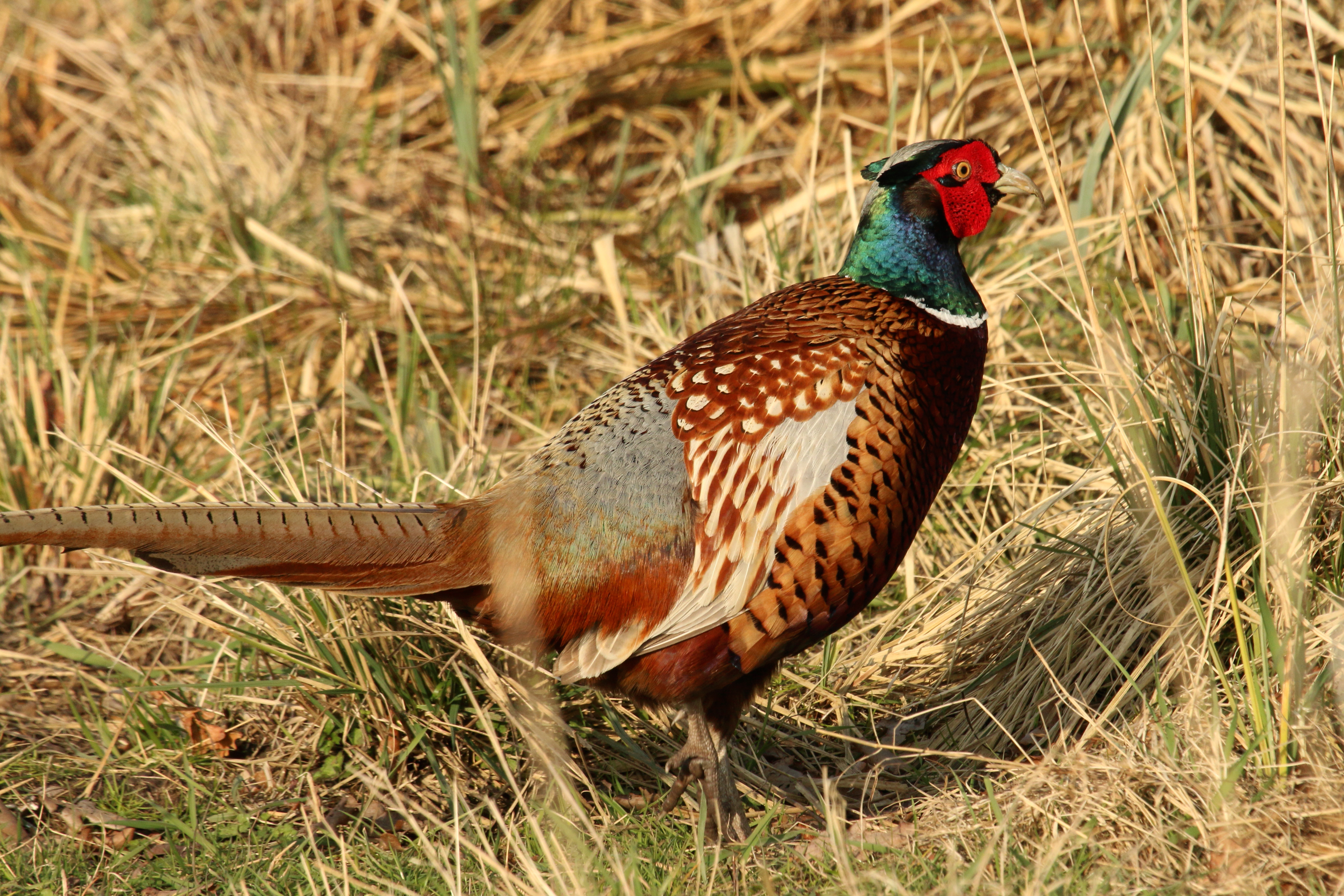 Common pheasant (Phasianus colchicus) cock, Otmoor RSPB Reserve, Oxfordshire